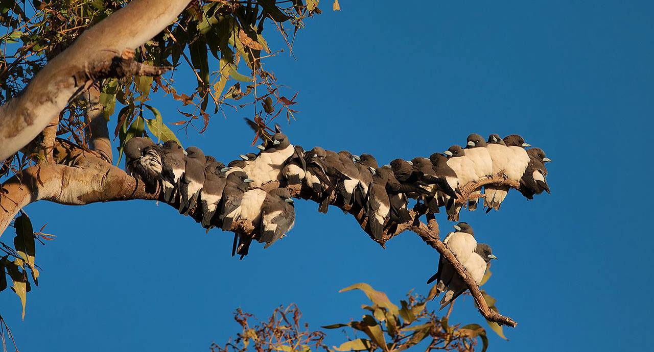 A flock of White-breasted Woodswallows (Artamus leucorynchus) resting on a branch near Wyndham in Western Australia.